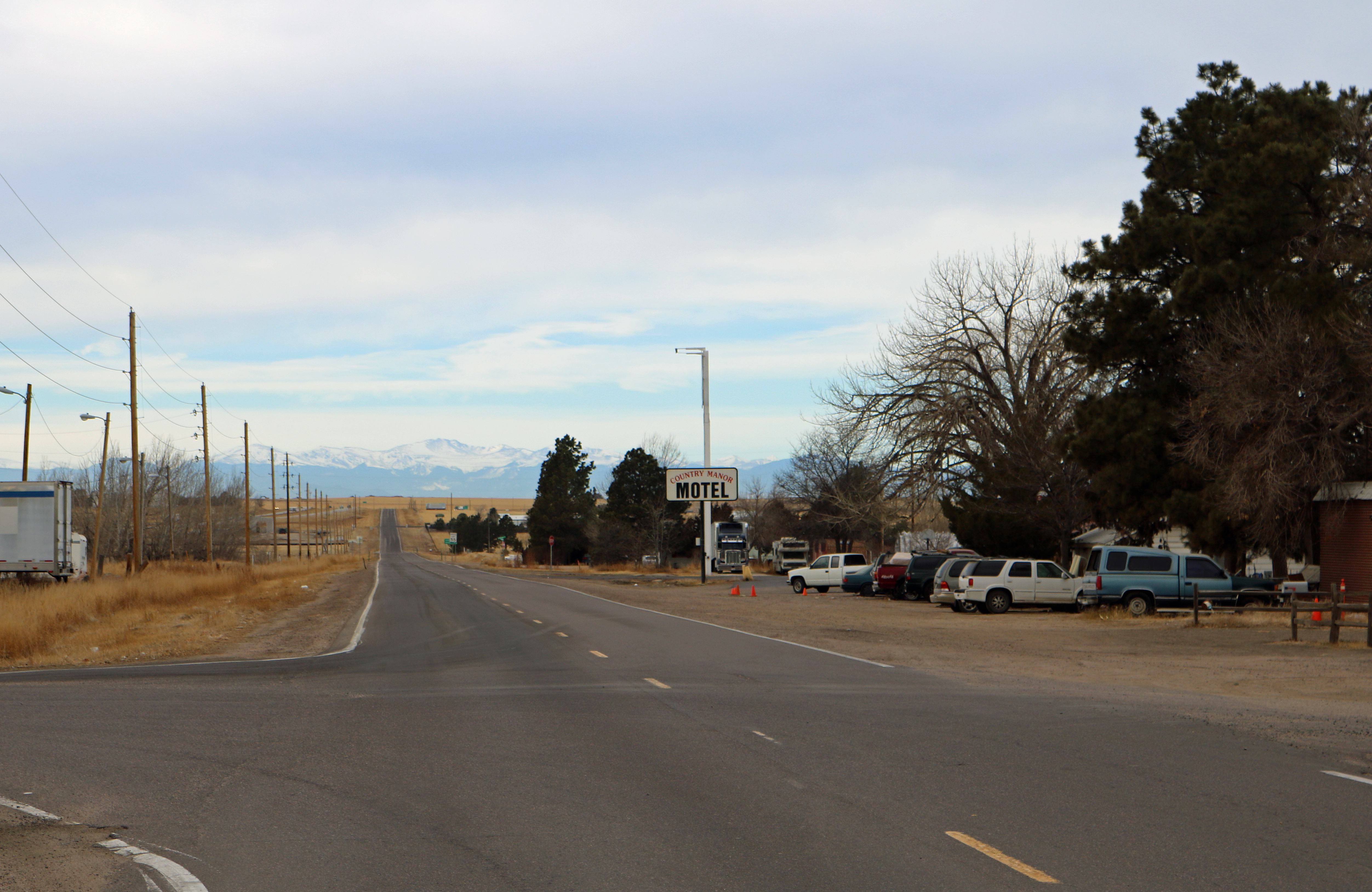 Watkins, Colorado, looking west along Colfax Avenue from its intersection with Watkins Road.